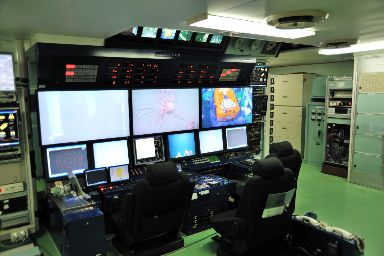 Japan Agency for Marine-Earth Science and Technology's Kairei.Control Room of ROV Kaikou.